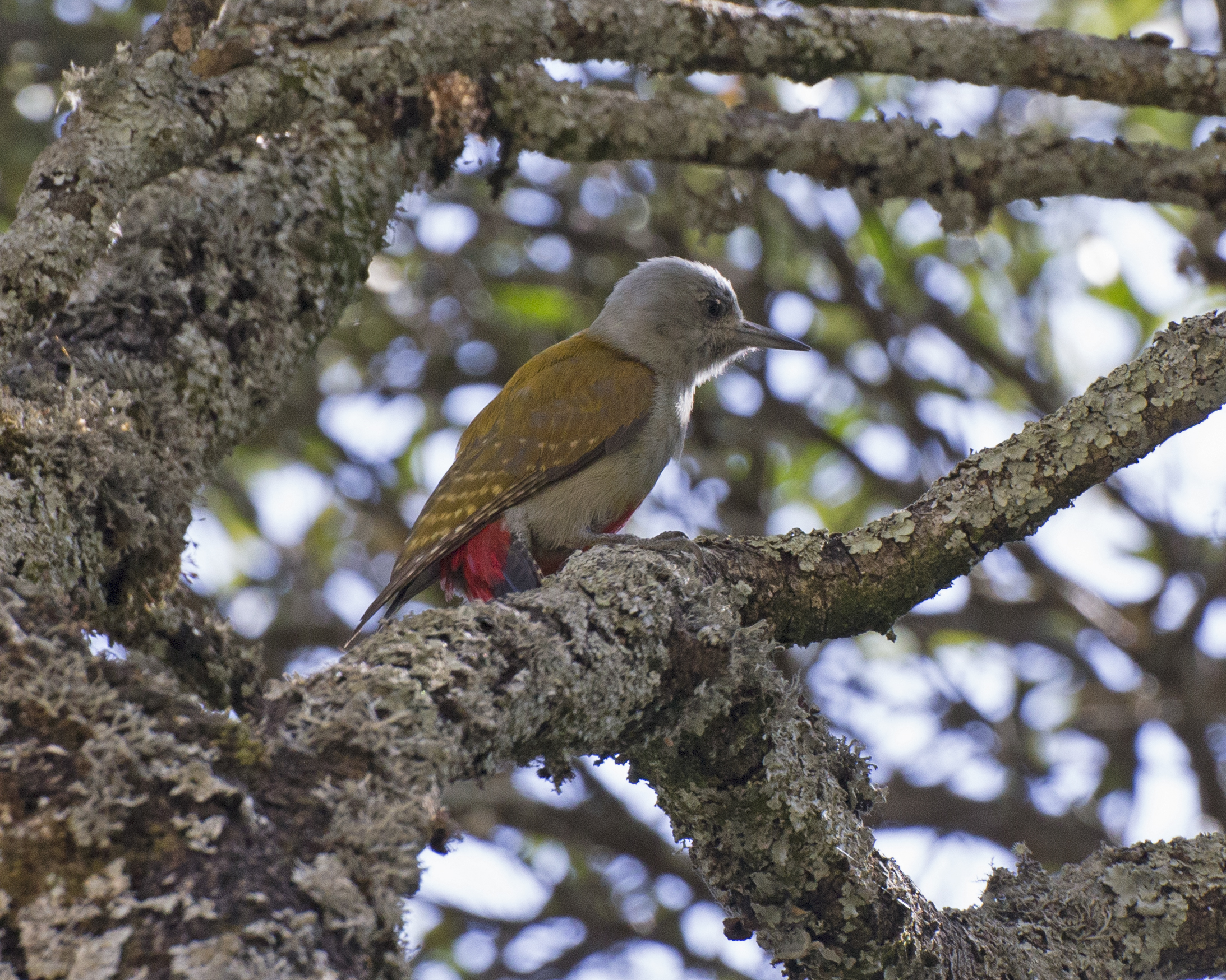 Gray-headed Woodpecker female Mesopicos spodocephalus nominate Mesopicos spodocephalus spodocephalus Portugese Bridge, near Addis Ababa, Ethiopia 16th. January 2015 CF2P9917